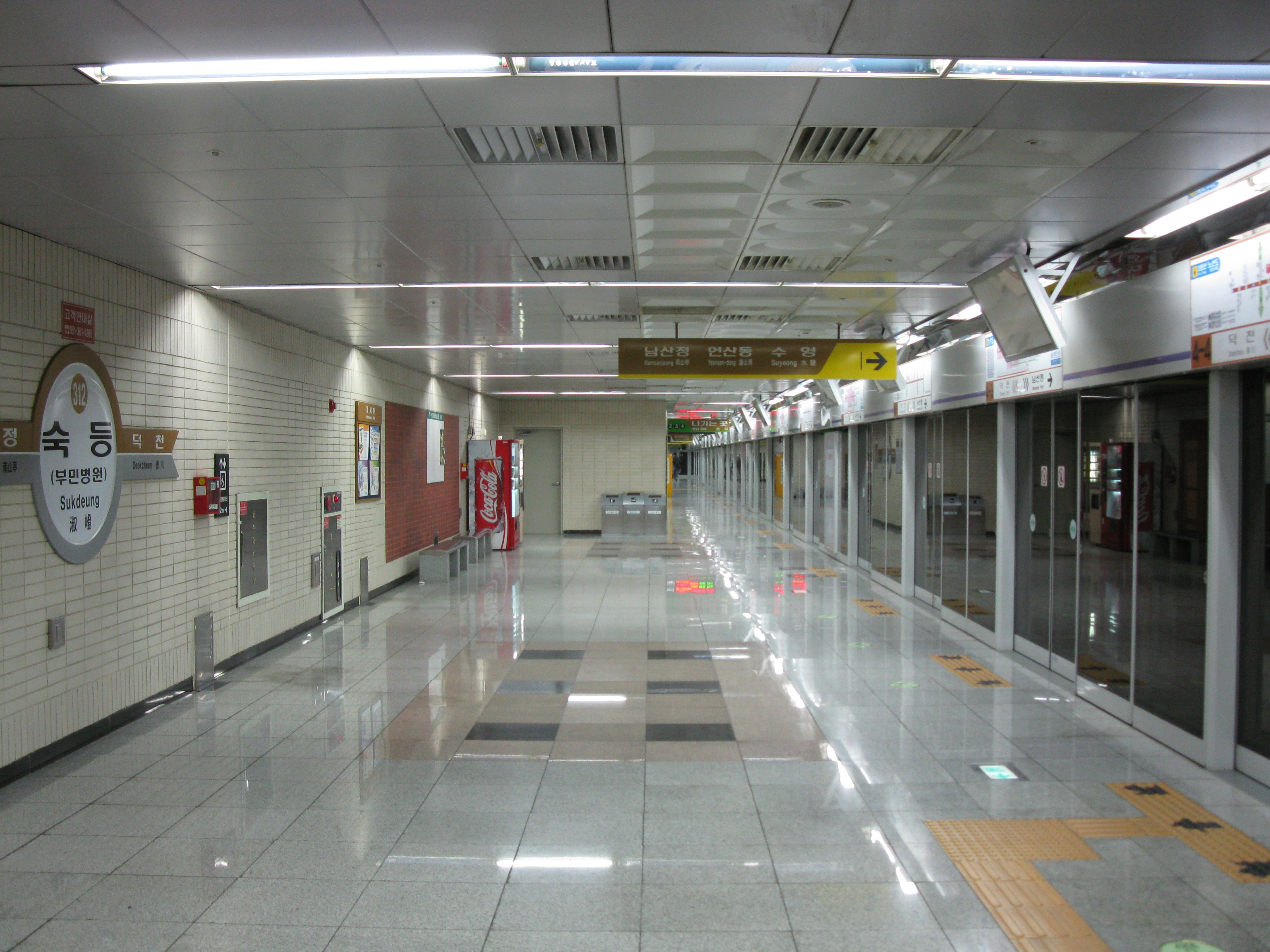 A platform of Sukdeung Station, Busan Subway Line 3